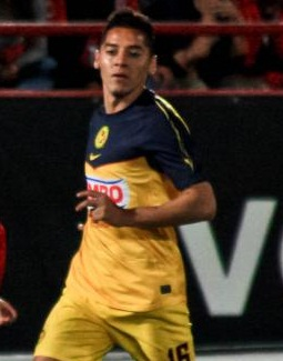 Mexican player José María Cárdenas